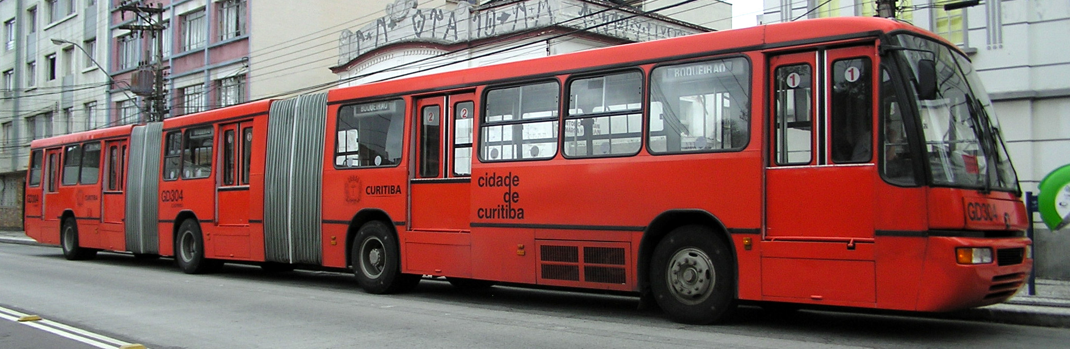 Expresso Biarticulado in Curitiba, Paraná, Brasil. Marcopolo Torino Biarticulado bus (#GD304) with Volvo B58 Biarticulado chassis.